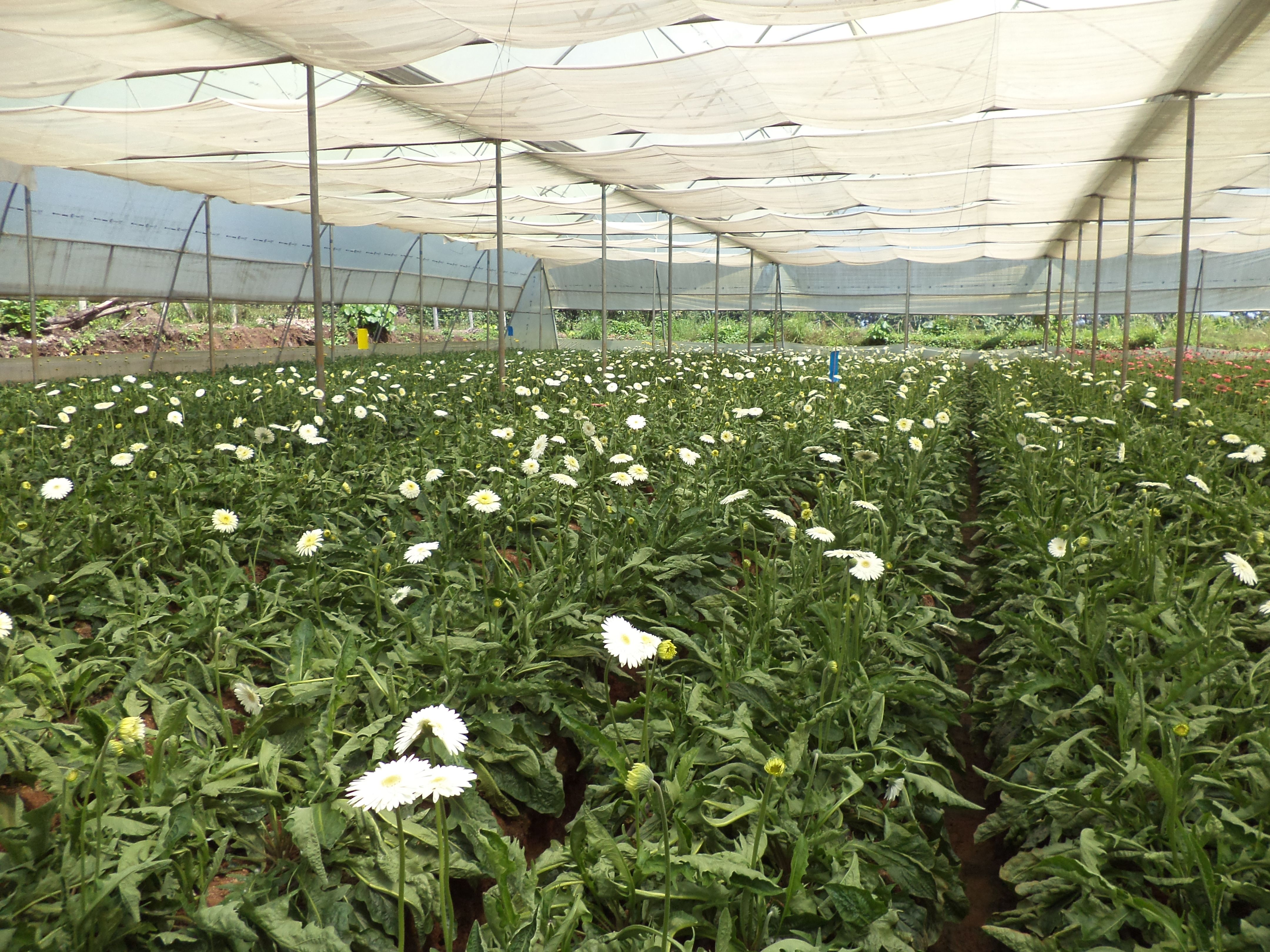 Gerbera Cultivation-in Poly-house, Dr. Rajendra Prasad Central Agriculture University